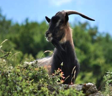 Common goat